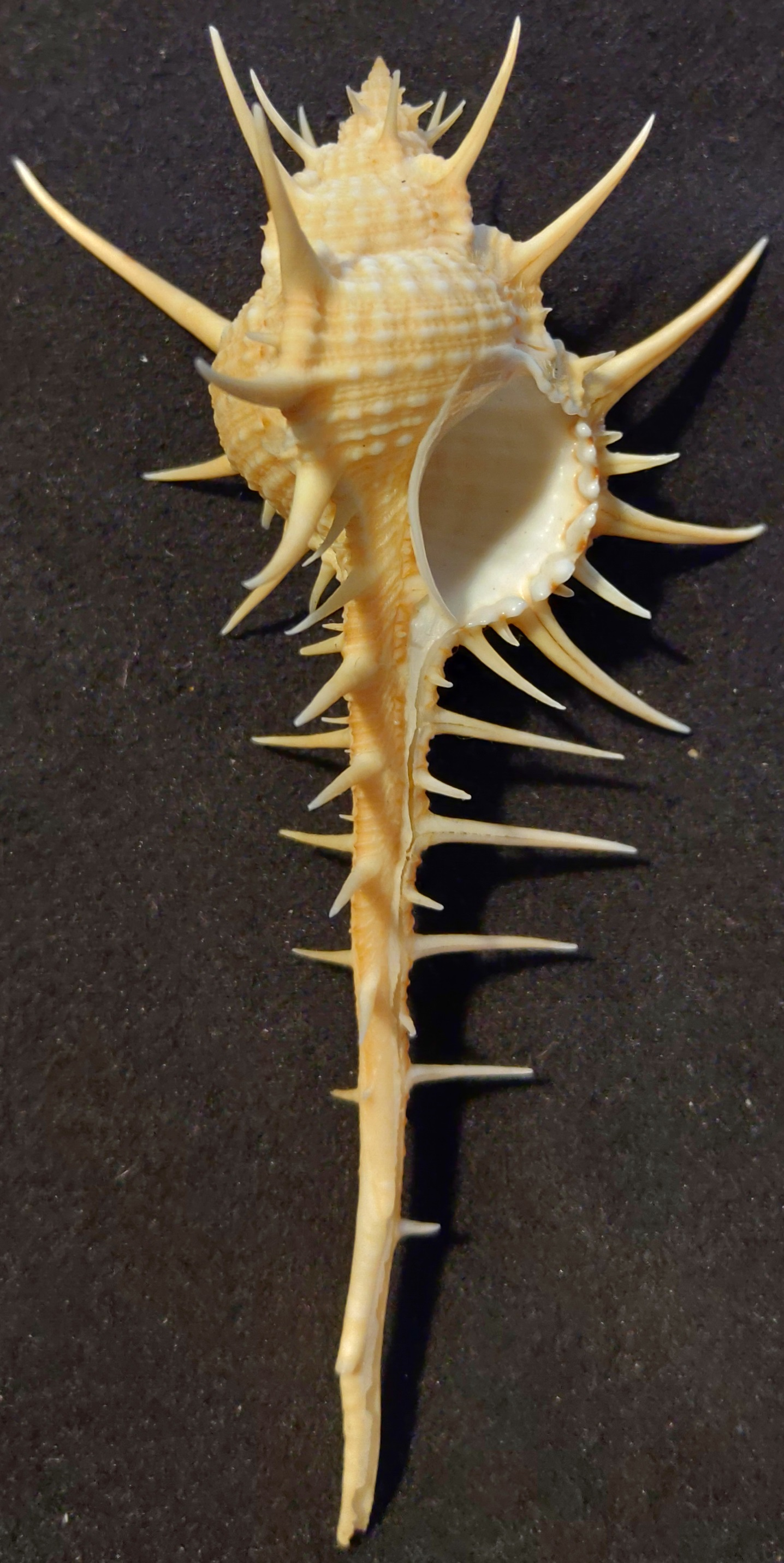 Murex Tenuirostrum Front